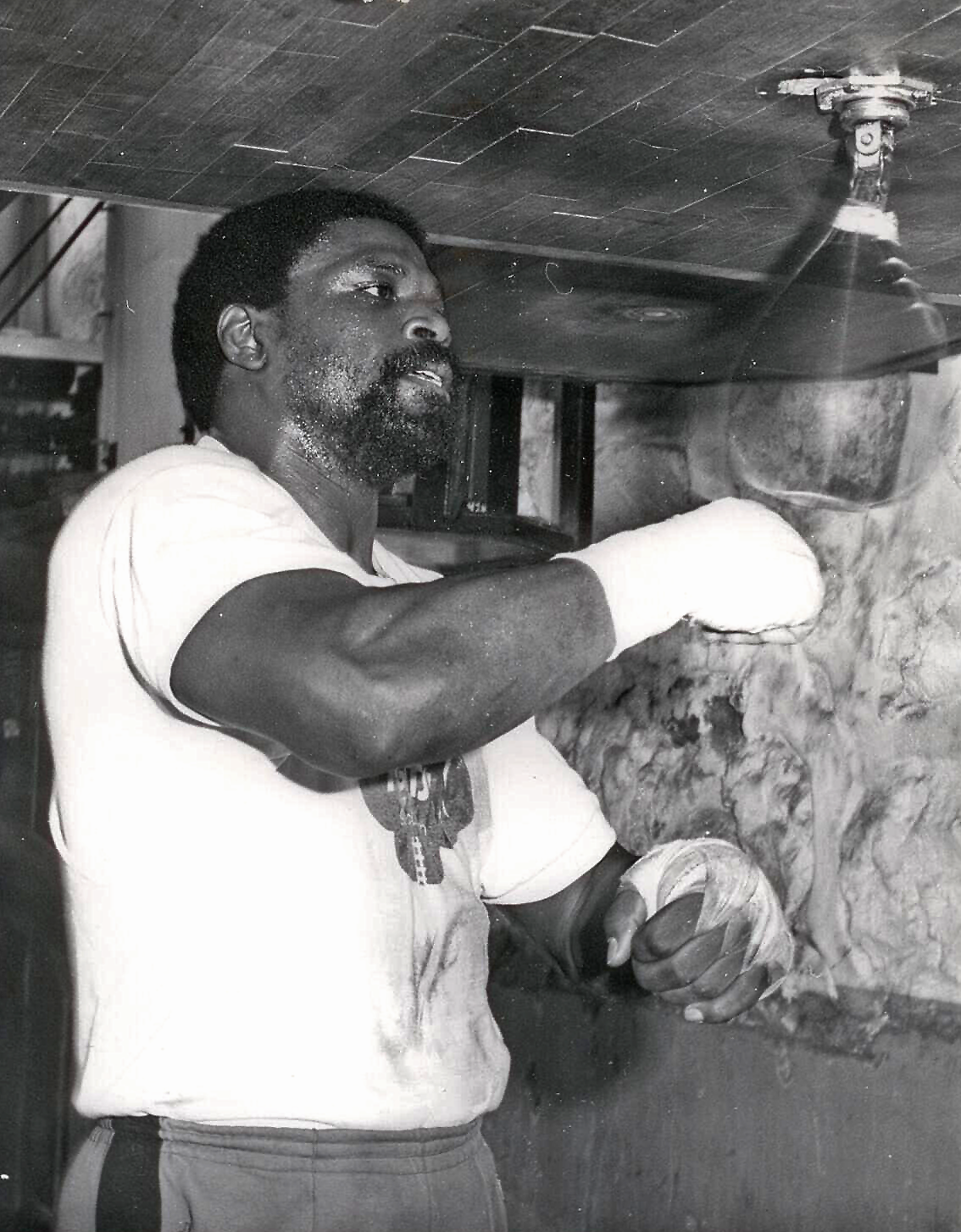 This picture was probably taken by Cliff Mattax, athletic director at Canon City State Penitentiary after Ron Lyle started learning to box.